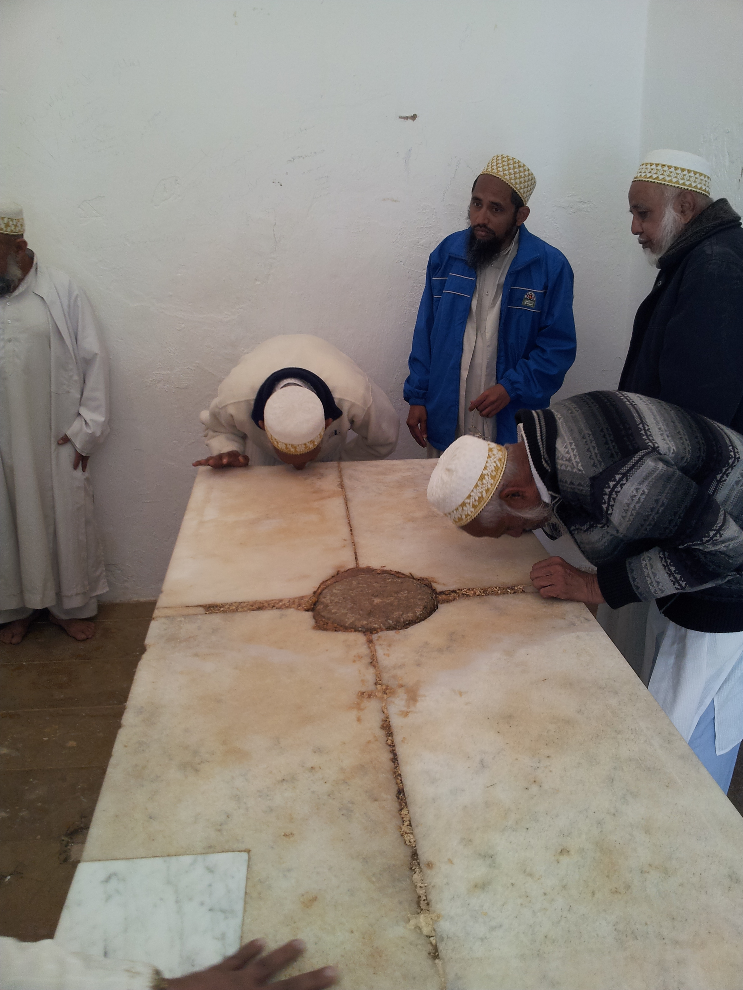 Tomb of Yusuf Najmuddin ibn Sulaiman,tayba,yemen